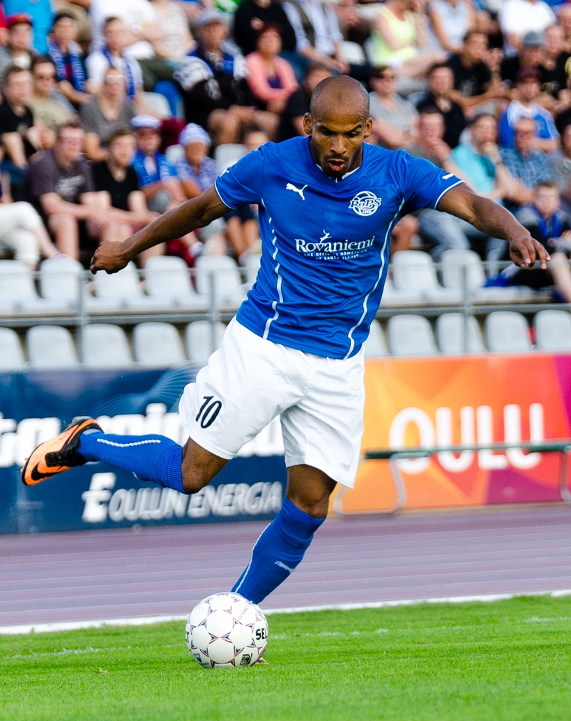 Nicholas Otaru (blue jersey) in RoPS - Asteras Tripolis match on 17th of July 2014.